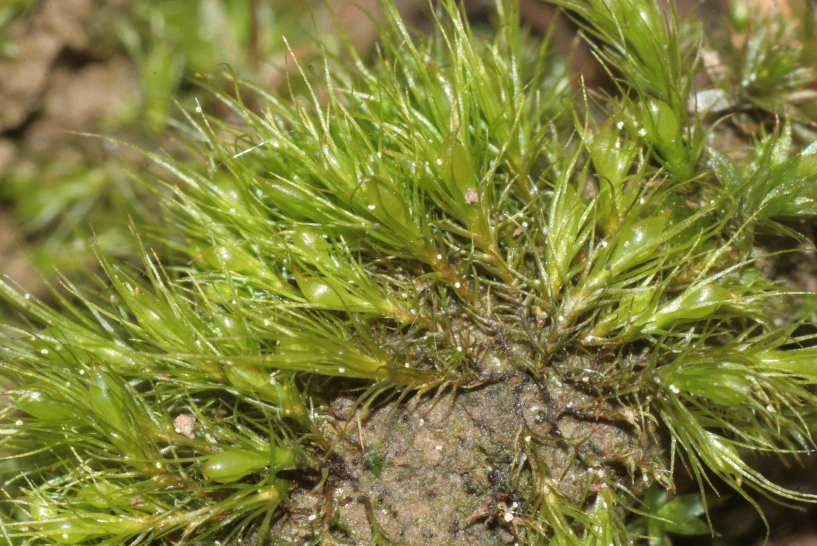 Pleuridium subulatum